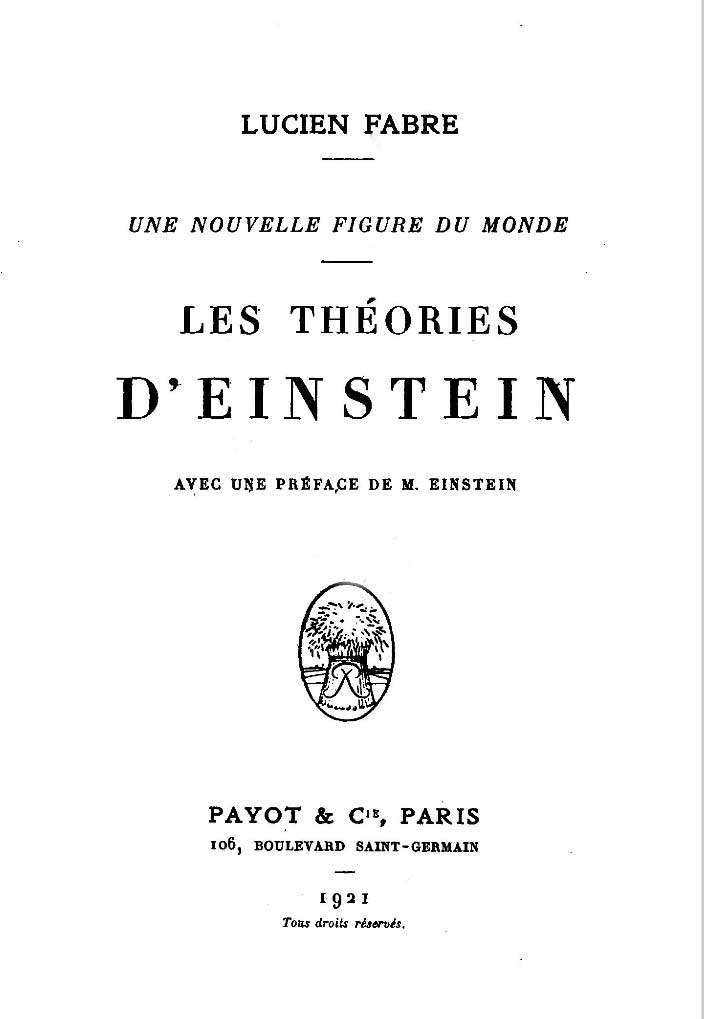 Page 3 of the 1921 book "Les Théories d'Einstein" by Lucien Fabre. It was the first french book about Einstein's Theories and contained a flaw: The page announces "une préface de M. Einstein" (a preface by Mr. Einstein). However, the "Preface" wasn't written, at least not authorized by Albert Einstein. Einstein complained in several letters about the "harsh abuse" of his name.